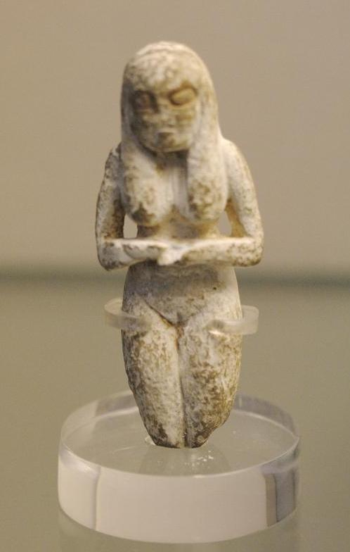 Badari culture A hoard of photos from a day trip to London. We started in Greenwich at the Royal Observatory, and then spent most of the evening at the British Museum. These are uncleaned and unedited; all I've done is shrunk to make it faster to upload them. I'll post some of my faves to my "real" Flickr account as time and mood permits. A hoard of photos from a day trip to London. We started in Greenwich at the Royal Observatory, and then spent most of the evening at the British Museum. These are uncleaned and unedited; all I've done is shrunk to make it faster to upload them. I'll post some of my faves to my "real" Flickr account as time and mood permits.